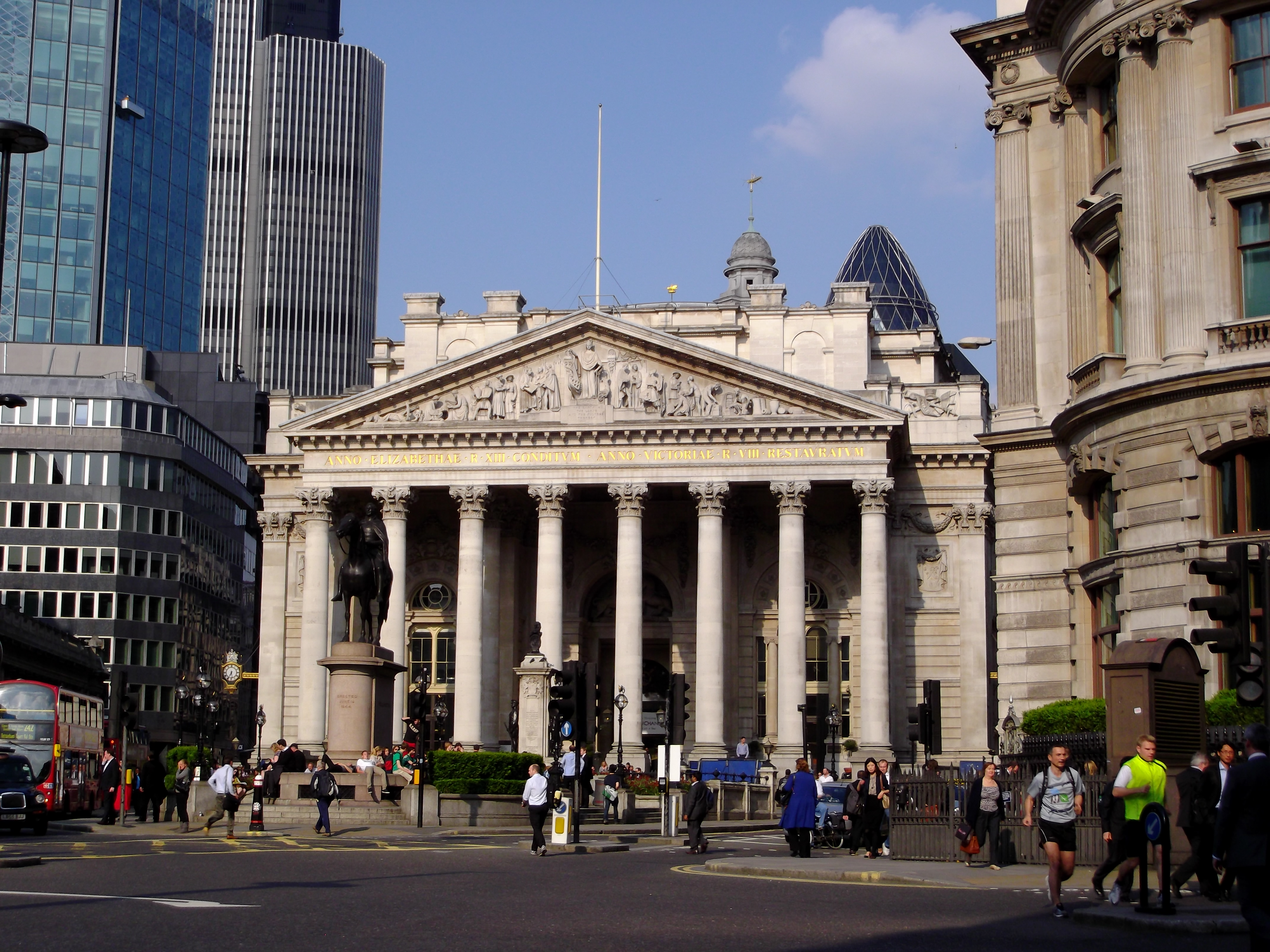 Royal Exchange, London